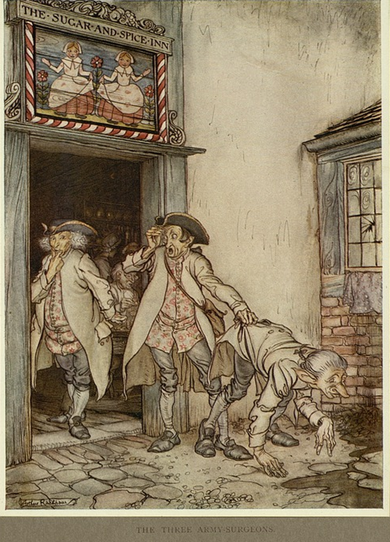 Little brother & little sister and other tales by the Brothers Grimm, illustrated by Arthur Rackham, 1917.